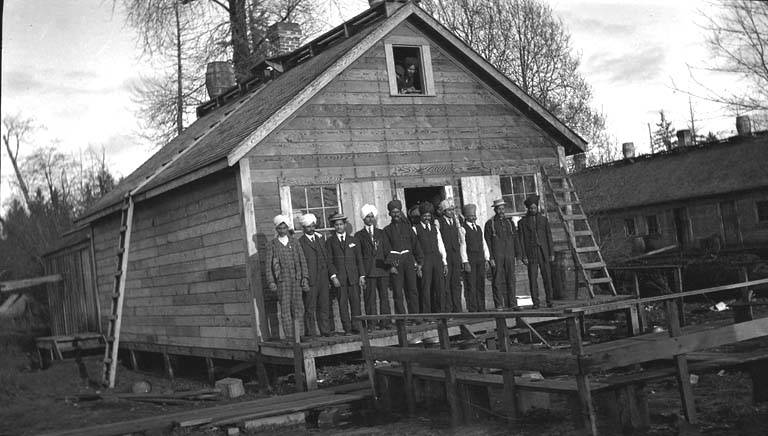 PH Coll 1373.28 Arthur B. Pracna was an architect who specialized in lumber and shingle mills in the Pacific Northwest during the early twentieth century. He was born in Minnesota in 1878 and began his buisness in Everett, Washington in 1902. He continued to work and live in the Seattle area until his death in 1948. He also designed and patented a swivel band-saw guide for use in these mills. Subjects (LCSH): Sikhs; Lumber camps--British Columbia